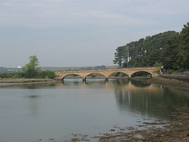 Duchess Bridge, Alnmouth. For different views by other contributors, see 1092640 and 1320793. The rise across the bridge from left to right (west to east) is explained by the fact that the town centre to the right is on a ridge of high ground.